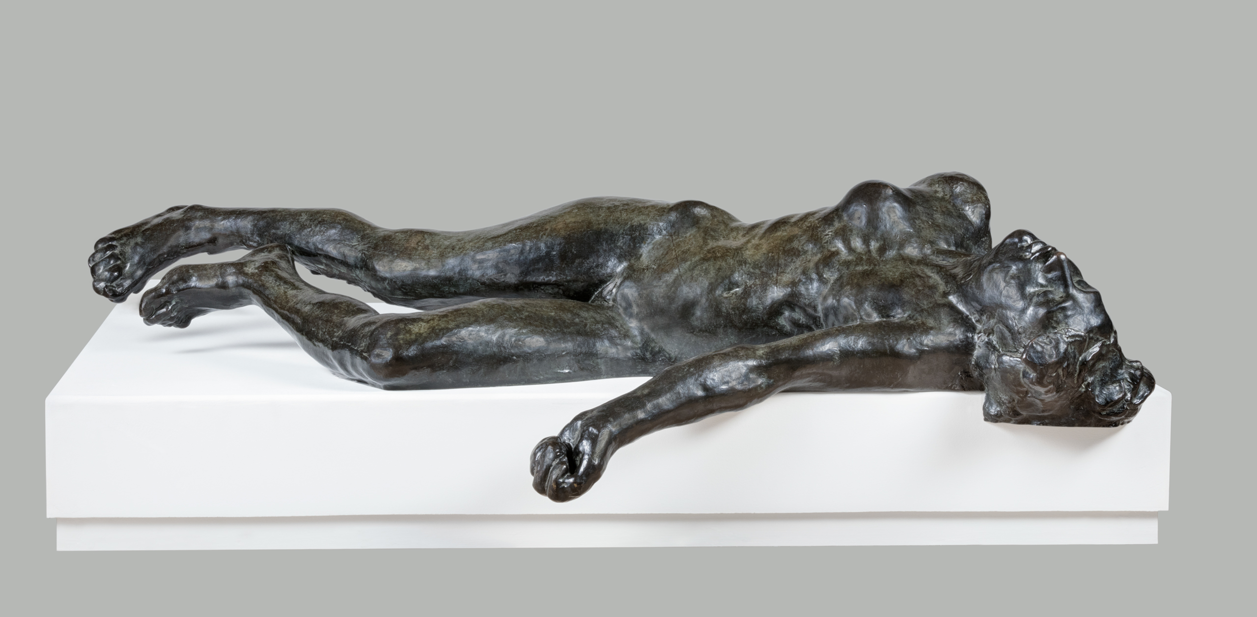 The Martyr